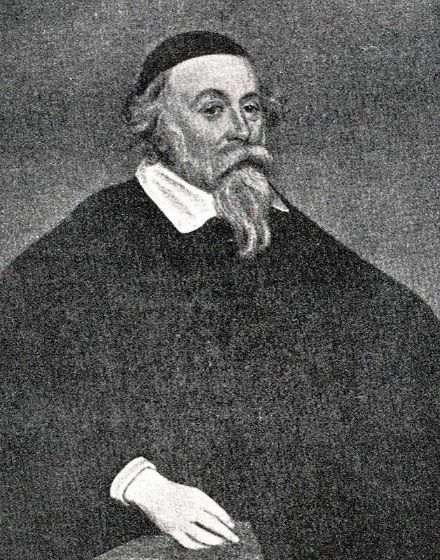 John Casimir of the Palatinate and Stegeborg (1589-1652), consort of Princess Catherine of Sweden